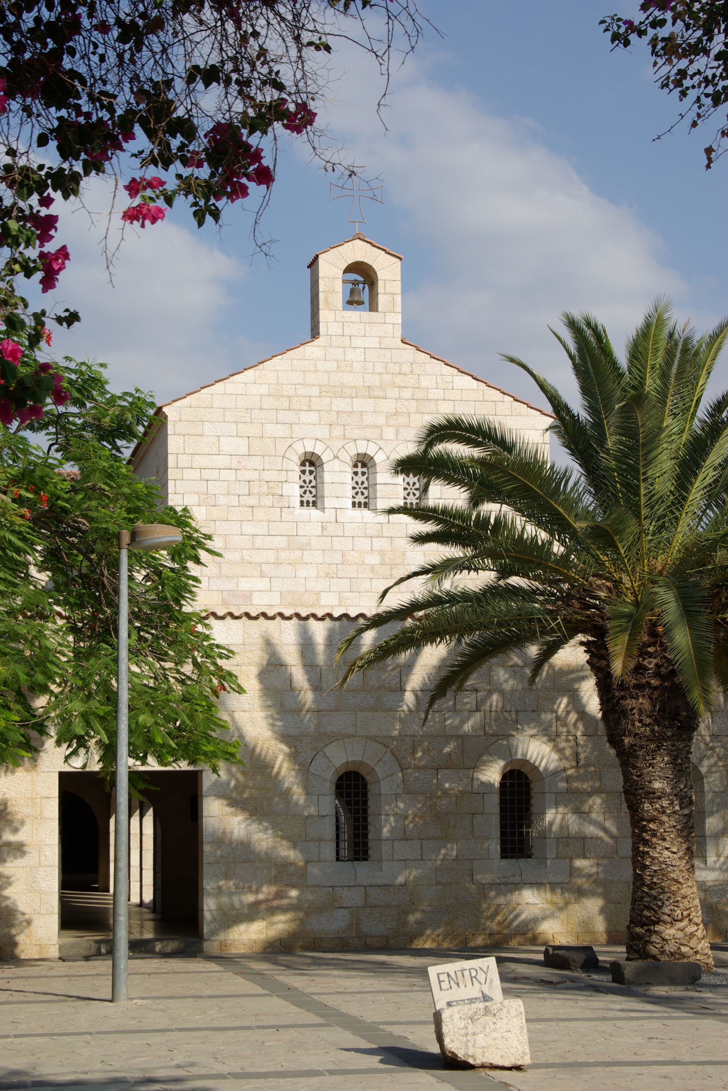 Church of the multiplication